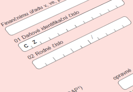 Part of a Czech tax form showing a field for Rodné číslo (the national identification number)